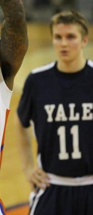 chris walker from florida